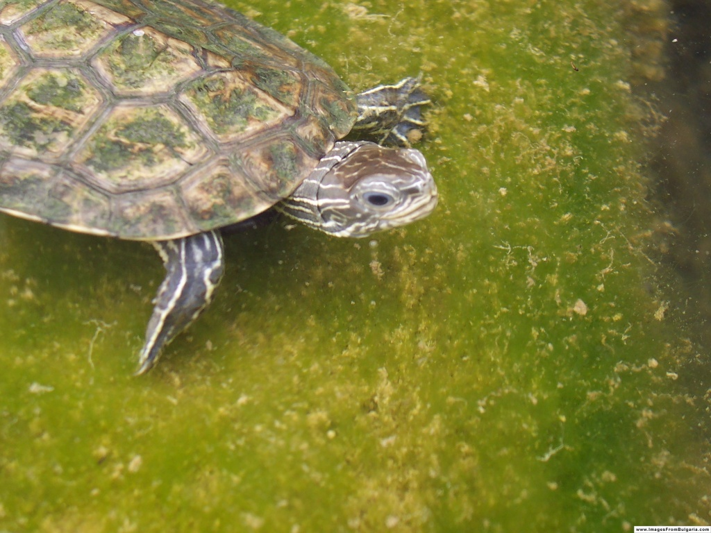 Balkan terrapin